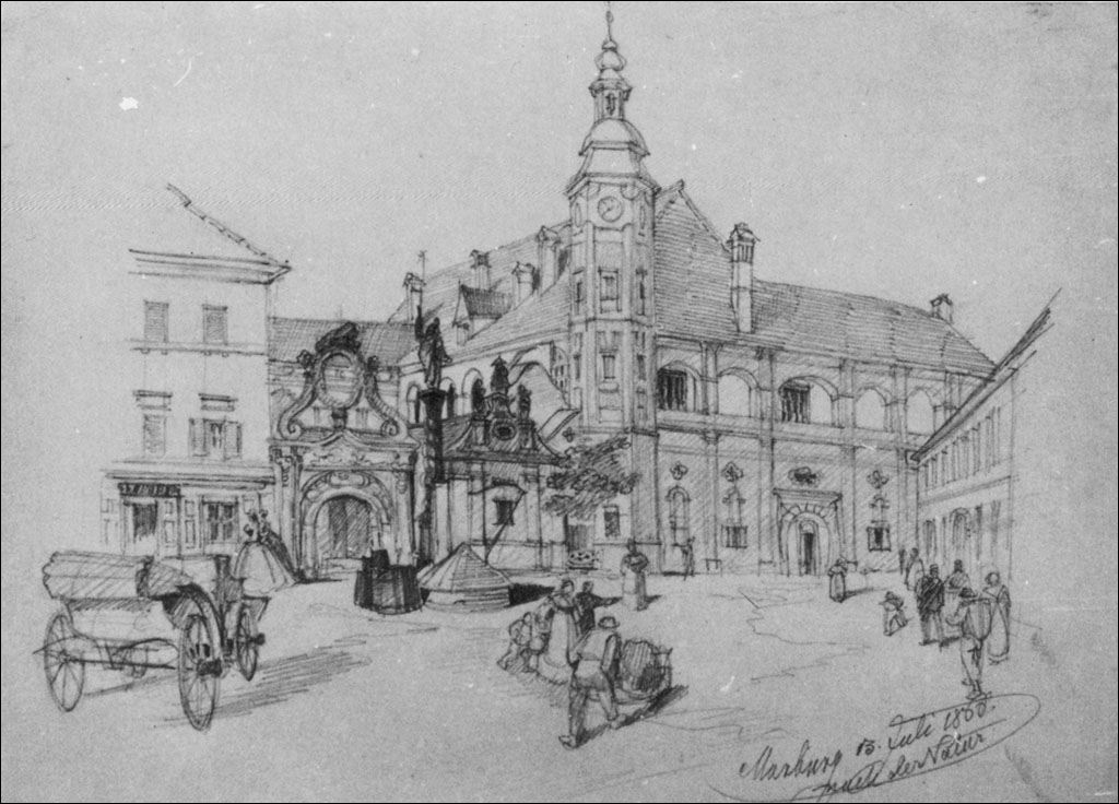 Mestni grad (City castle) of Maribor on a 1866 drawing.